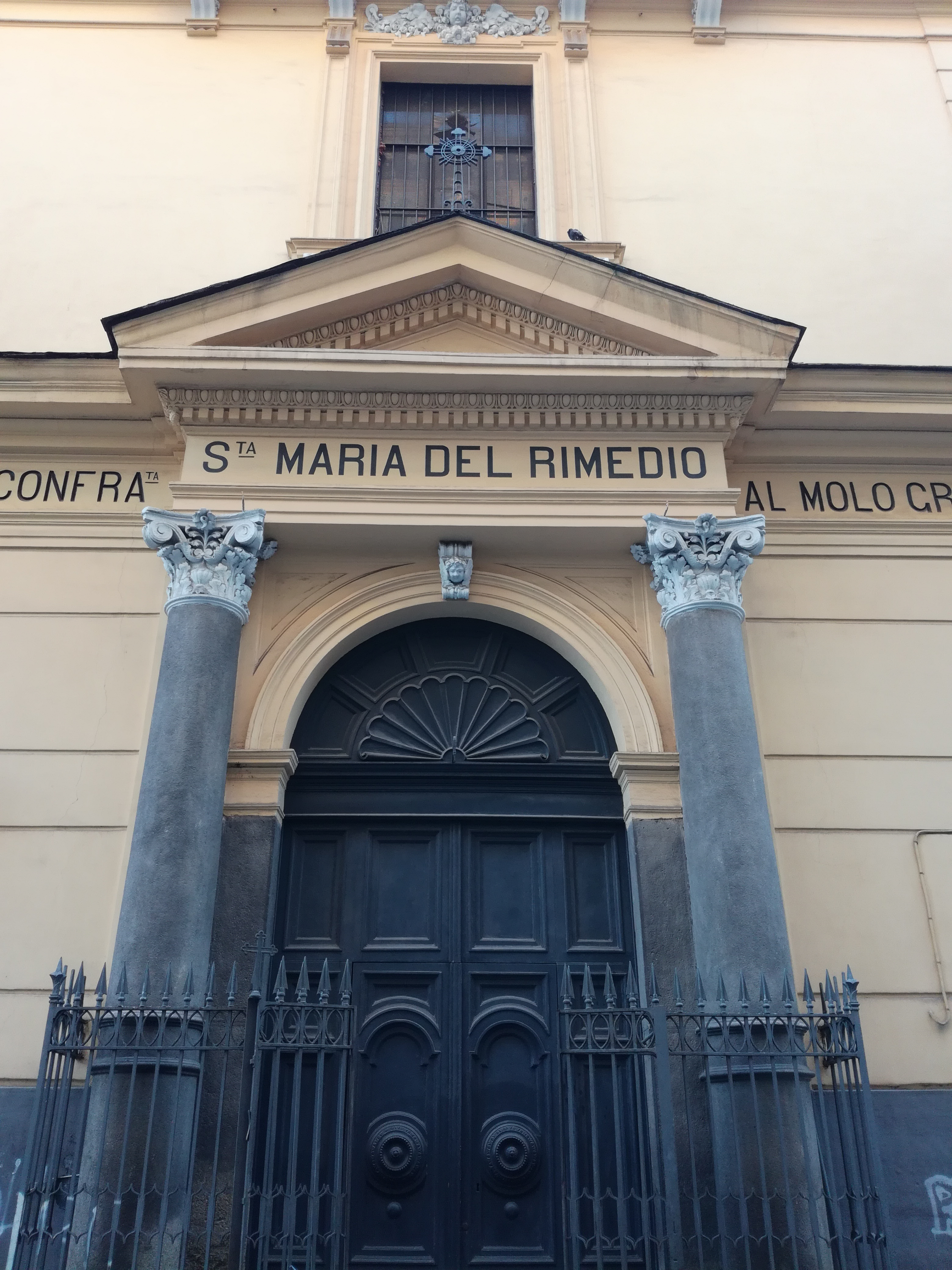 Church Santa Maria del Rimedio al Molo Grande (Naples)